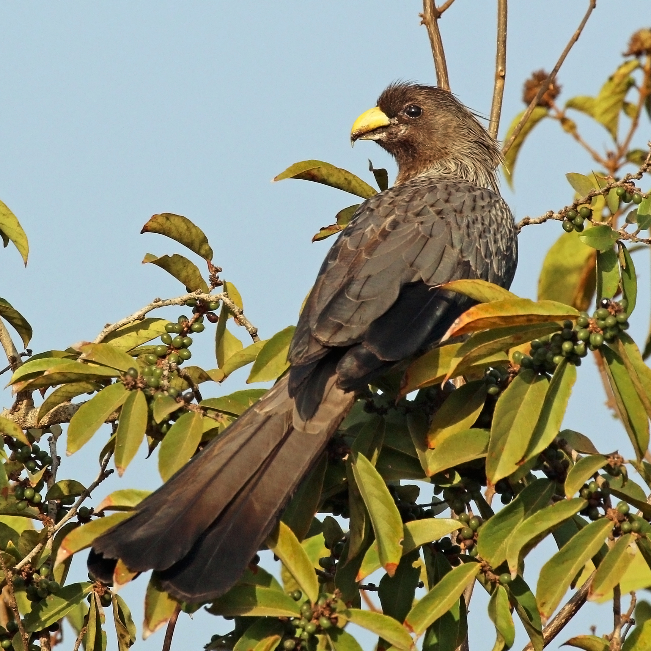 Western grey plantain-eater (Crinifer piscator), The Gambia